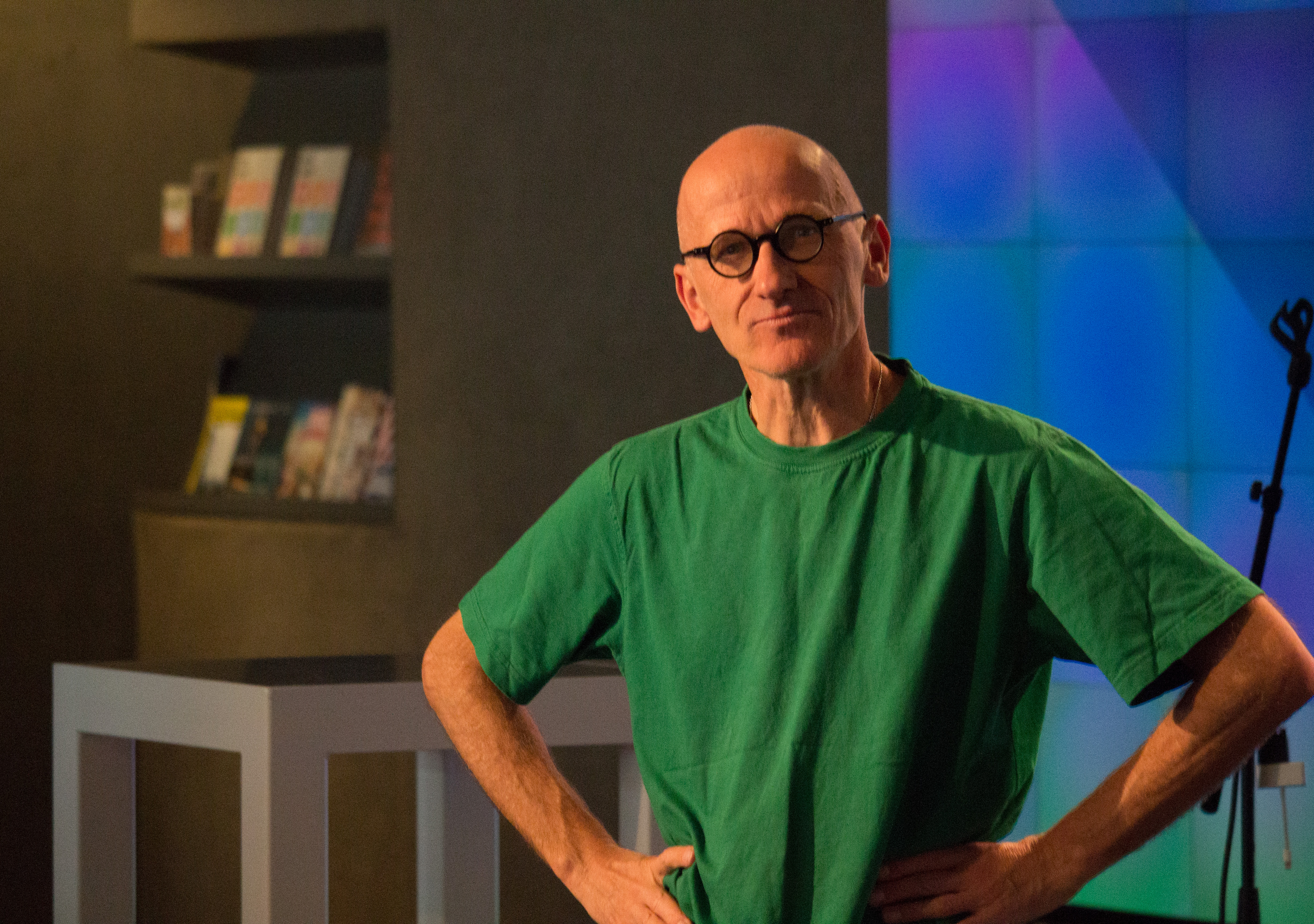 Djanko at the first edition of the CrossComix Festival